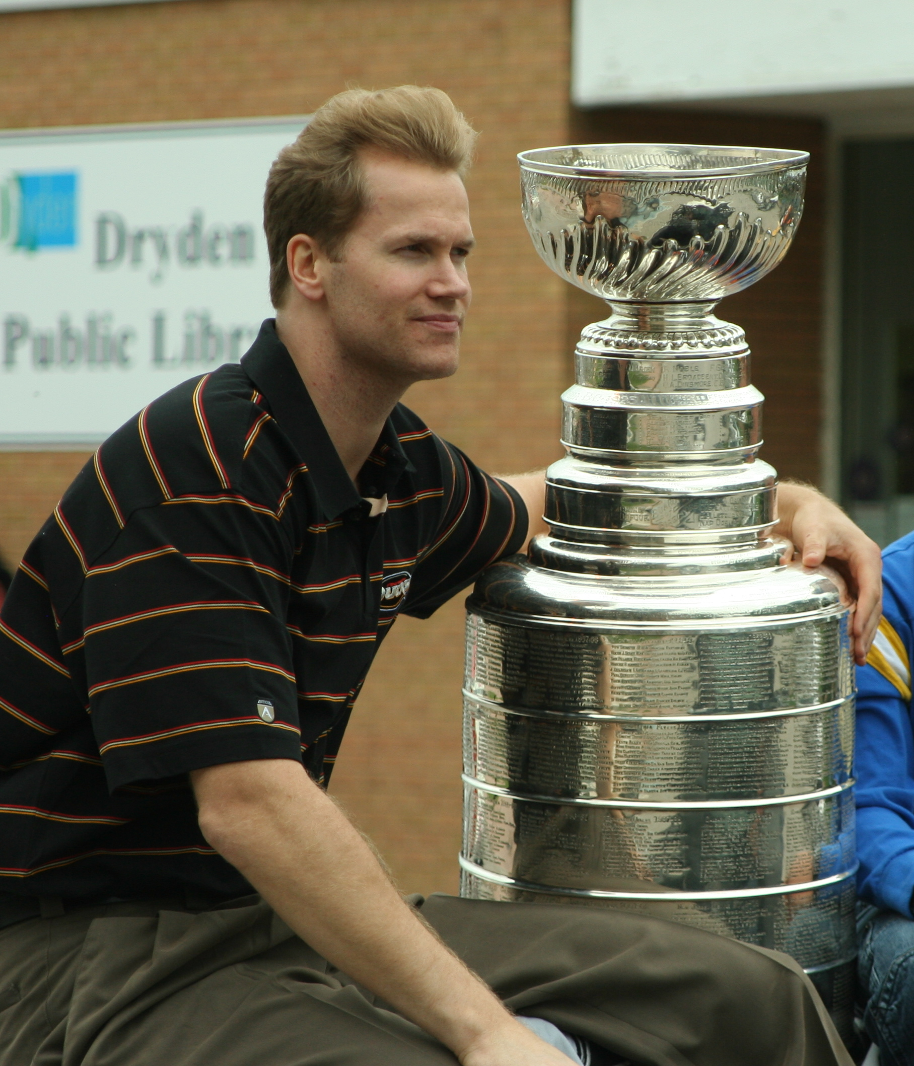 Photograph of Chris Pronger with the Stanley Cup in Dryden, ON. Taken June 27, 2007.